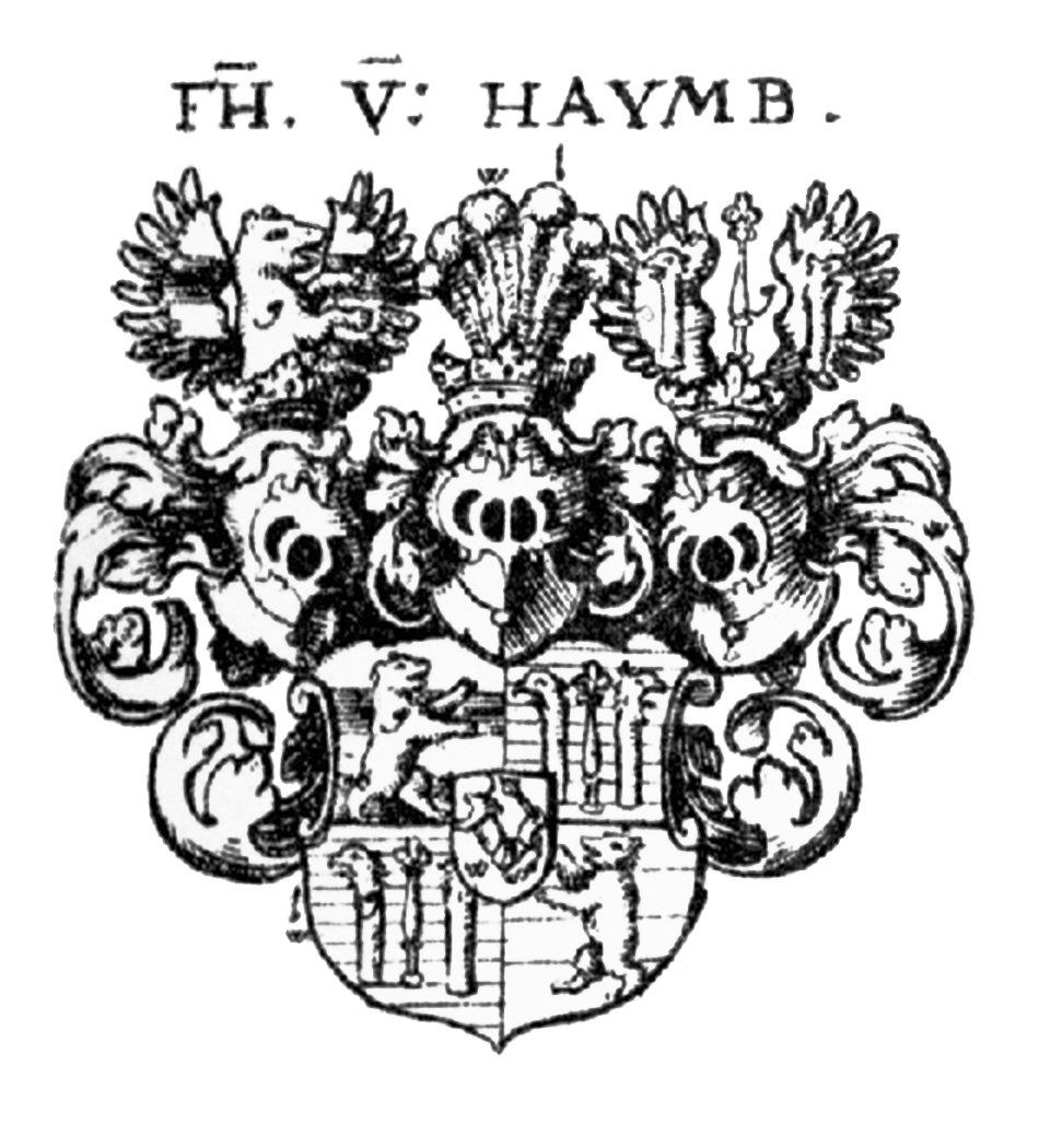 Coats of Arms of Haim (Haymb) Barons